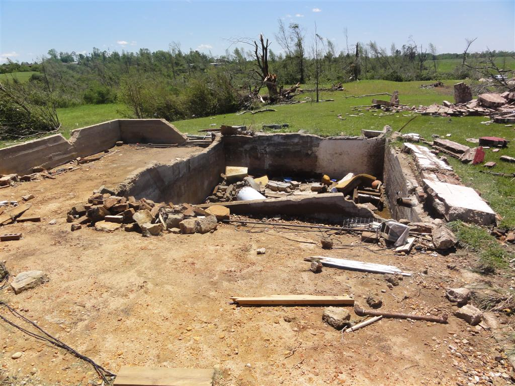 Remains of a house that was swept completely away by an EF5 tornado in Hackleburg, Alabama, with concrete stemwalls sheared of at ground level.